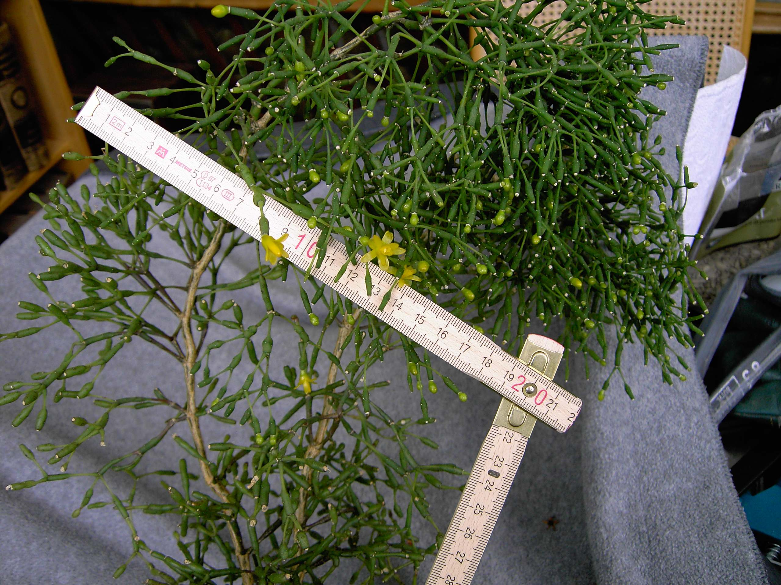 Hatiora salicornioides with many buds and a few open flowers in january 2006 northern hemisphere. The buds and flowers are only found on the plants window side, where it is colder. With centimeter ruler.